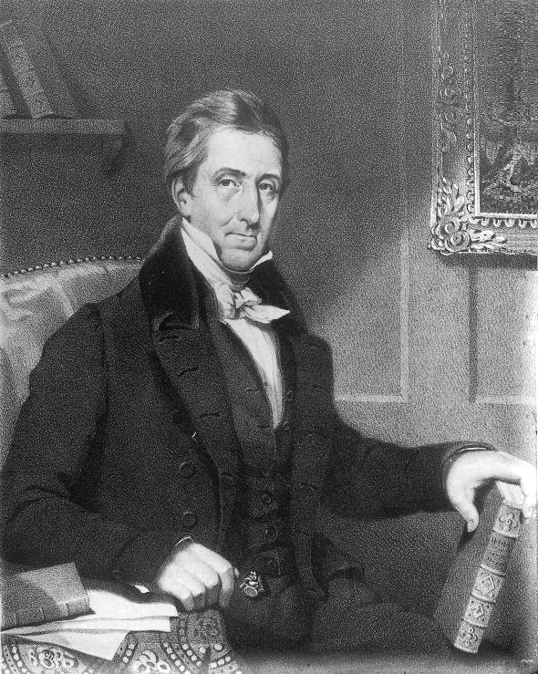 Denis-Benjamin Viger, canadian XIX century politician ; Photograph, L'Hon. D. B. Viger, lithograph by C. Hamburger, 1832, copied for Publishers Association, Wm. Notman & Son, Silver salts on glass - Gelatin dry plate process, 25 x 20 cm